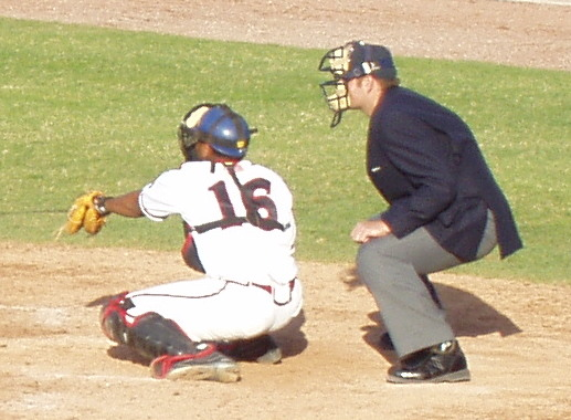 Kevin Howard bats for the Dayton Dragons and Jose Reyes of the Lansing Lugnuts catches during a 2003 game in Lansing, Michigan.